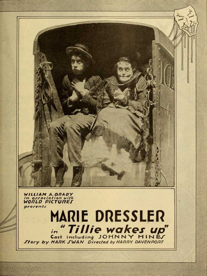 An advertisement for the American silent comedy film Tillie Wakes Up (1917). Published February 13, 1917 in The Moving Picture World.